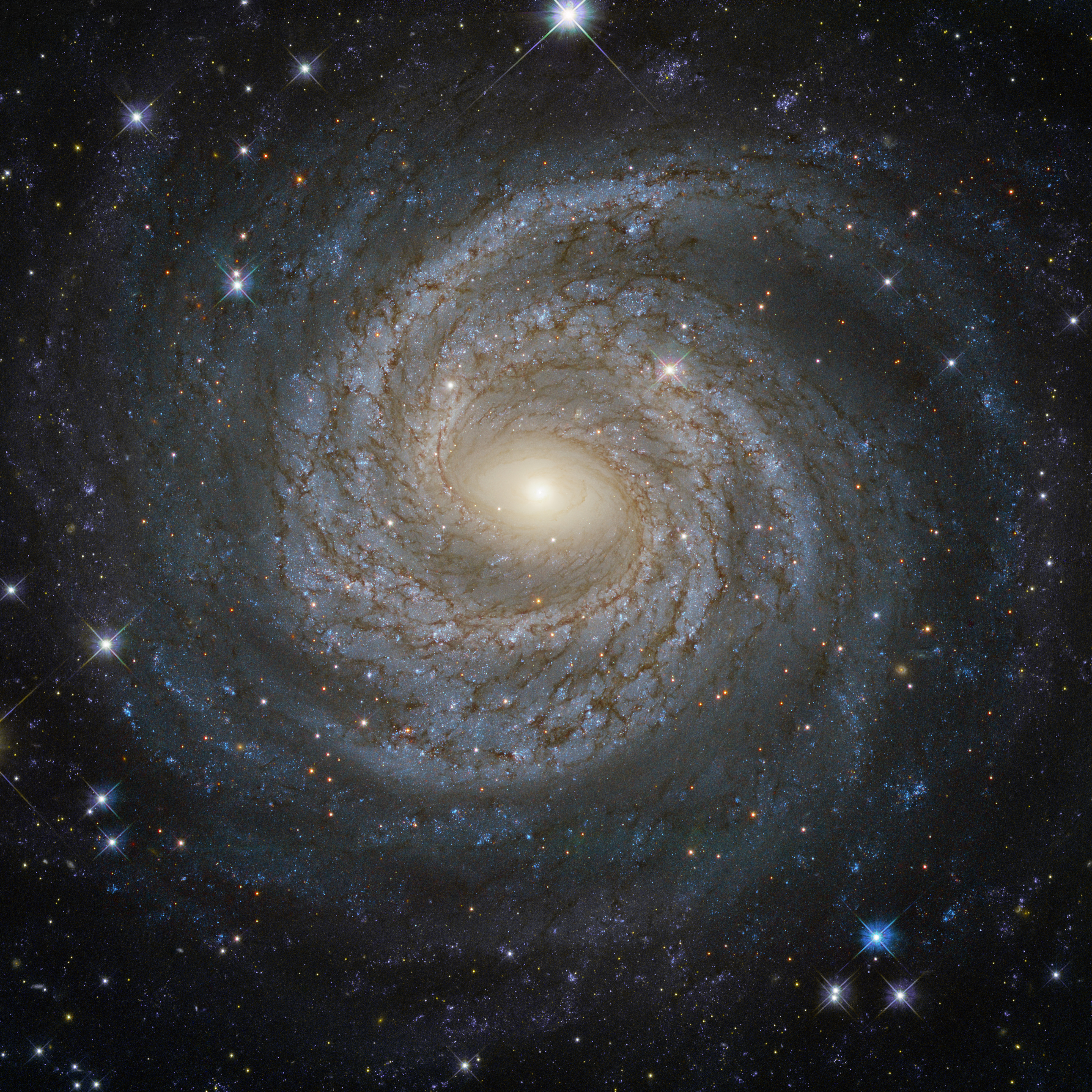 Spiral galaxies together with irregular galaxies make up approximately 60% of the galaxies in the local Universe. However, despite their prevalence, each spiral galaxy is unique — like snowflakes, no two are alike. This is demonstrated by the striking face-on spiral galaxy NGC 6814, whose luminous nucleus and spectacular sweeping arms, rippled with an intricate pattern of dark dust, are captured in this NASA/ESA Hubble Space Telescope image. NGC 6814 has an extremely bright nucleus, a telltale sign that the galaxy is a Seyfert galaxy. These galaxies have very active centres that can emit strong bursts of radiation. The luminous heart of NGC 6814 is a highly variable source of X-ray radiation, causing scientists to suspect that it hosts a supermassive black hole with a mass about 18 million times that of the Sun. As NGC 6814 is a very active galaxy, many regions of ionised gas are studded along its spiral arms. In these large clouds of gas, a burst of star formation has recently taken place, forging the brilliant blue stars that are visible scattered throughout the galaxy.